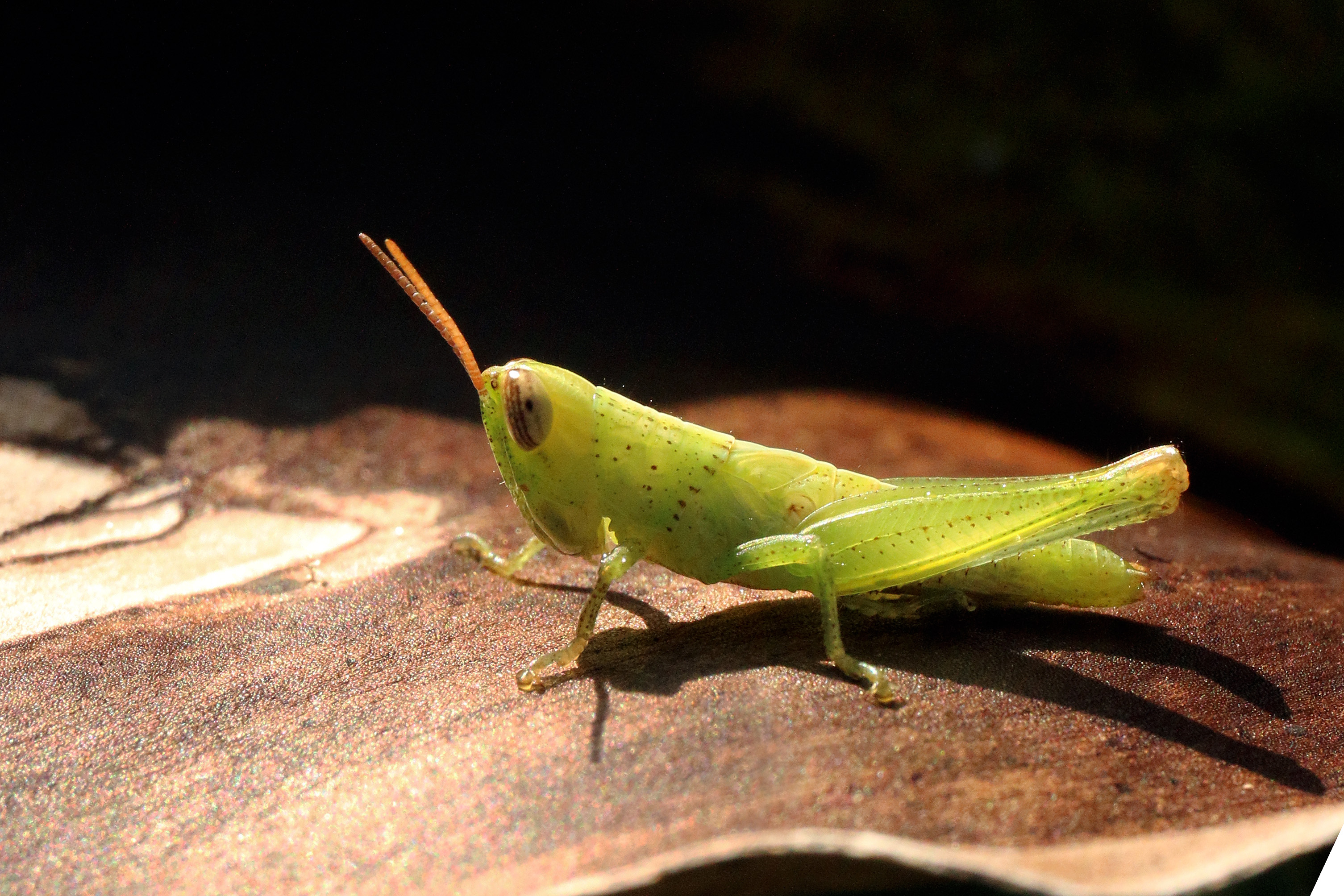 Javanese grasshopper (Valanga nigricornis) nymph, Sabah, Borneo